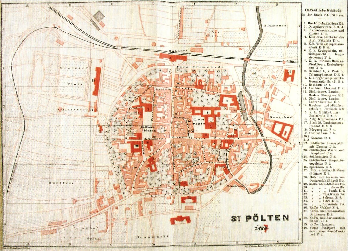 Map of St. Pölten, 1887